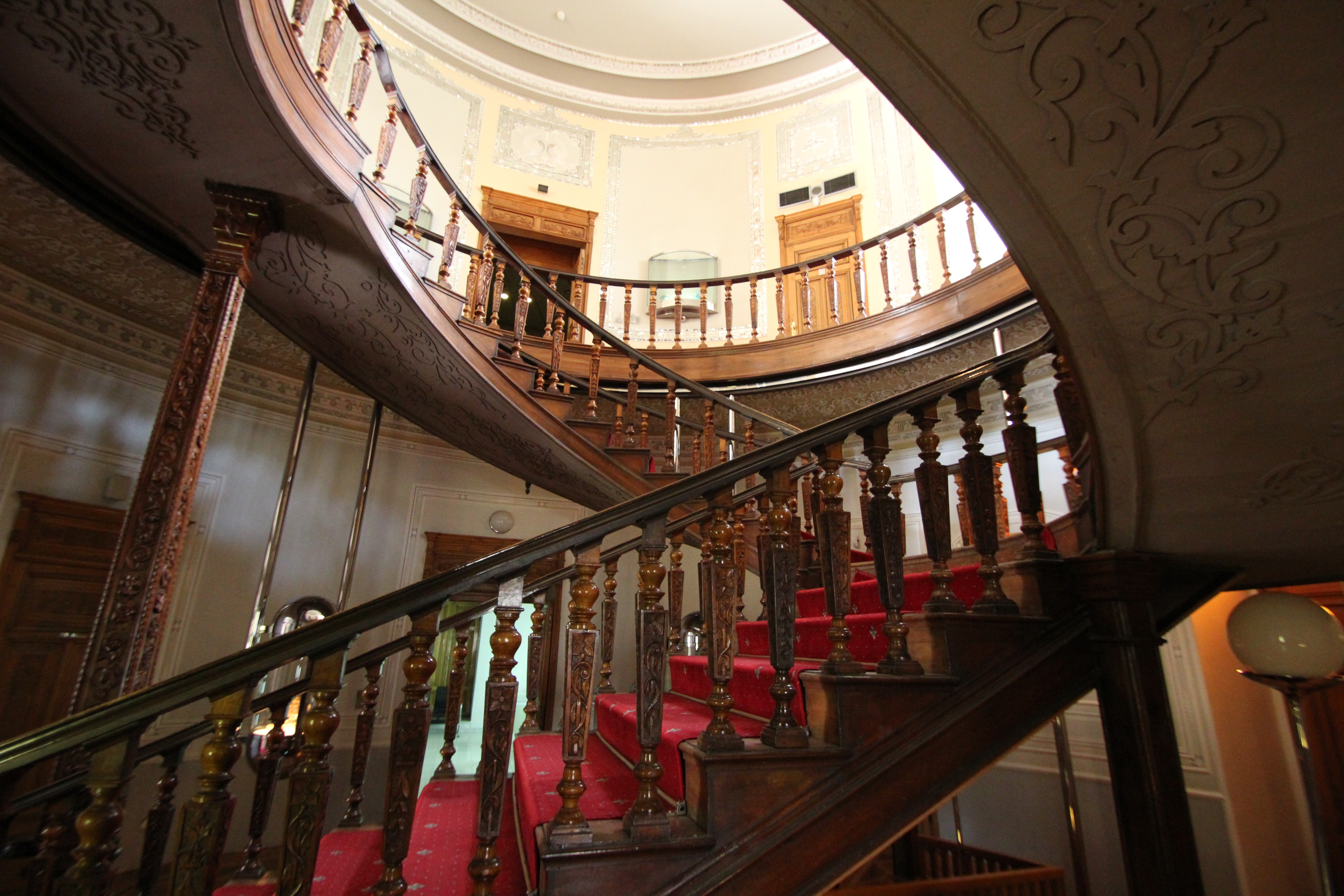 Glassware and Ceramics Museum Housed in what used to be the Egyptian Consulate Complex. When relations were strained between Iran and Egypt at the time of Abdul Nasser and subsequent to the closure of the Egyptian embassy in Iran, the Commercial Bank purchased the building.